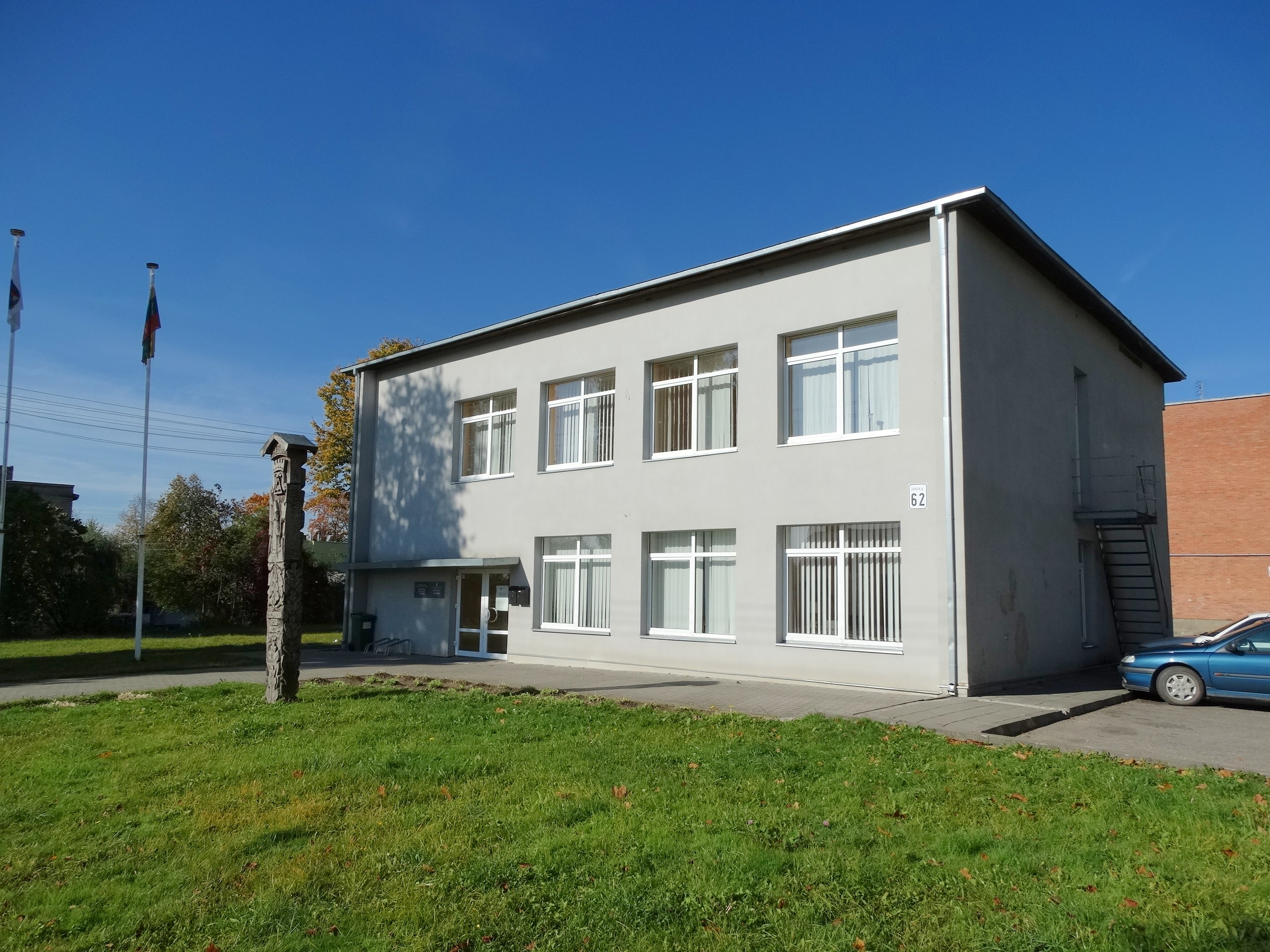 Eldership, Žiežmariai, Lithuania